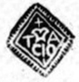 Seal of greek revolutionary Karatasos